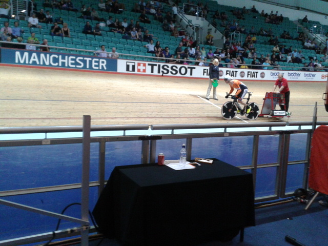 Jenning Huizenga, men's individual pursuit at the 2013-14 track cycling world cup in Manchester